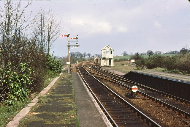 Westerfield junction and signalbox 1979